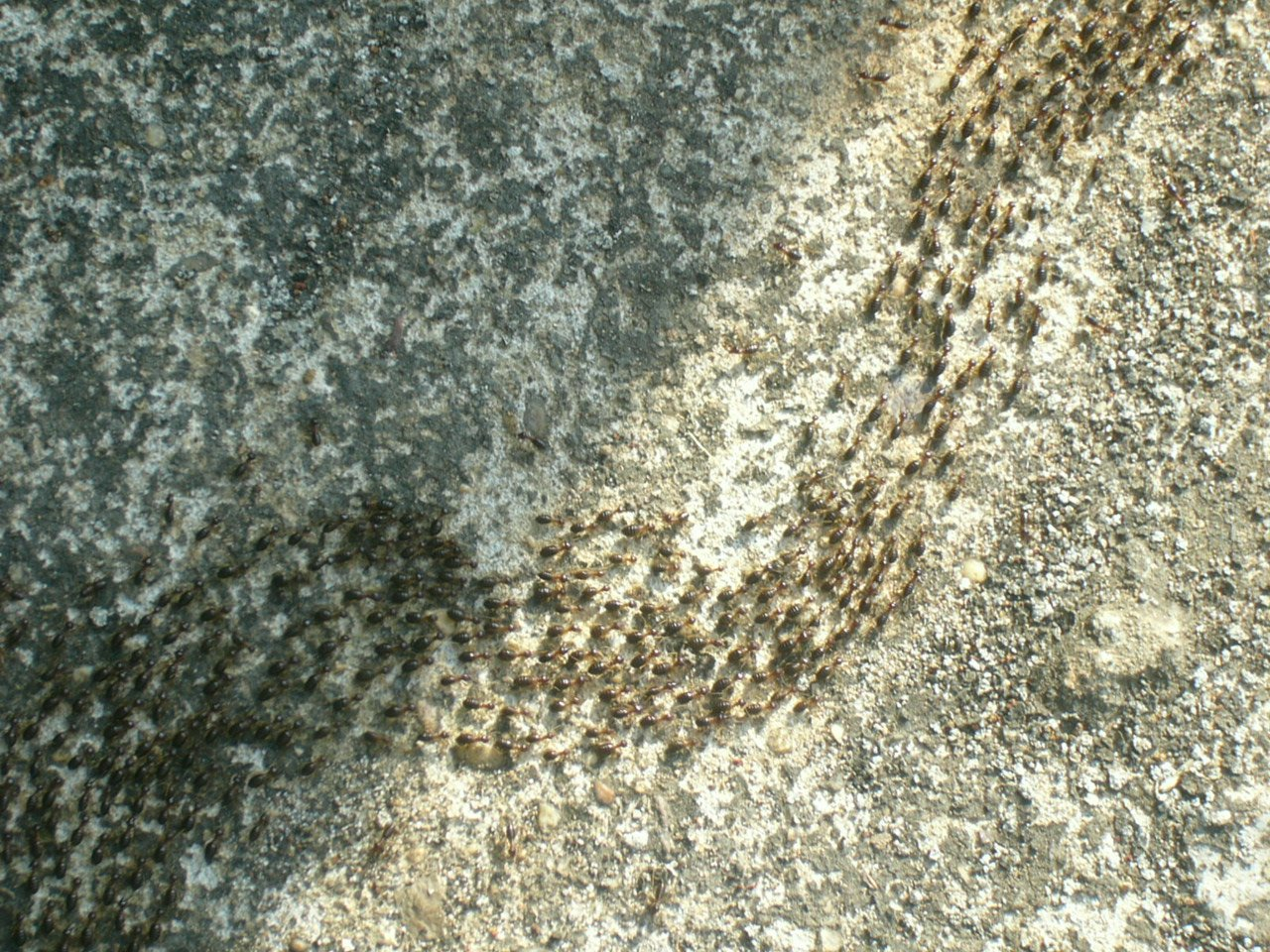 Termites forming a highway, seen in Thailand near a tropical forest (Nakhon Phanom province) – Image is misnamed!